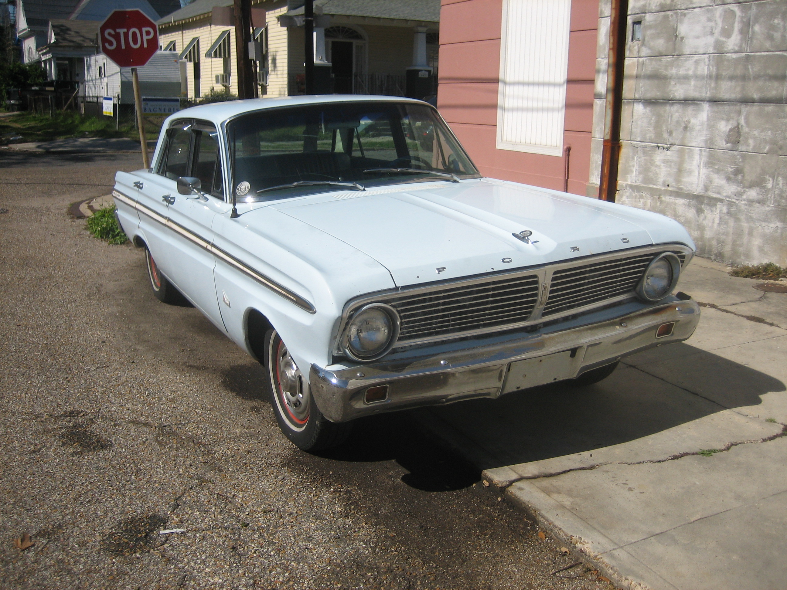 1965 Ford Falcon Futura on street in Algiers neighborhood of New Orleans Photo by Infrogmation